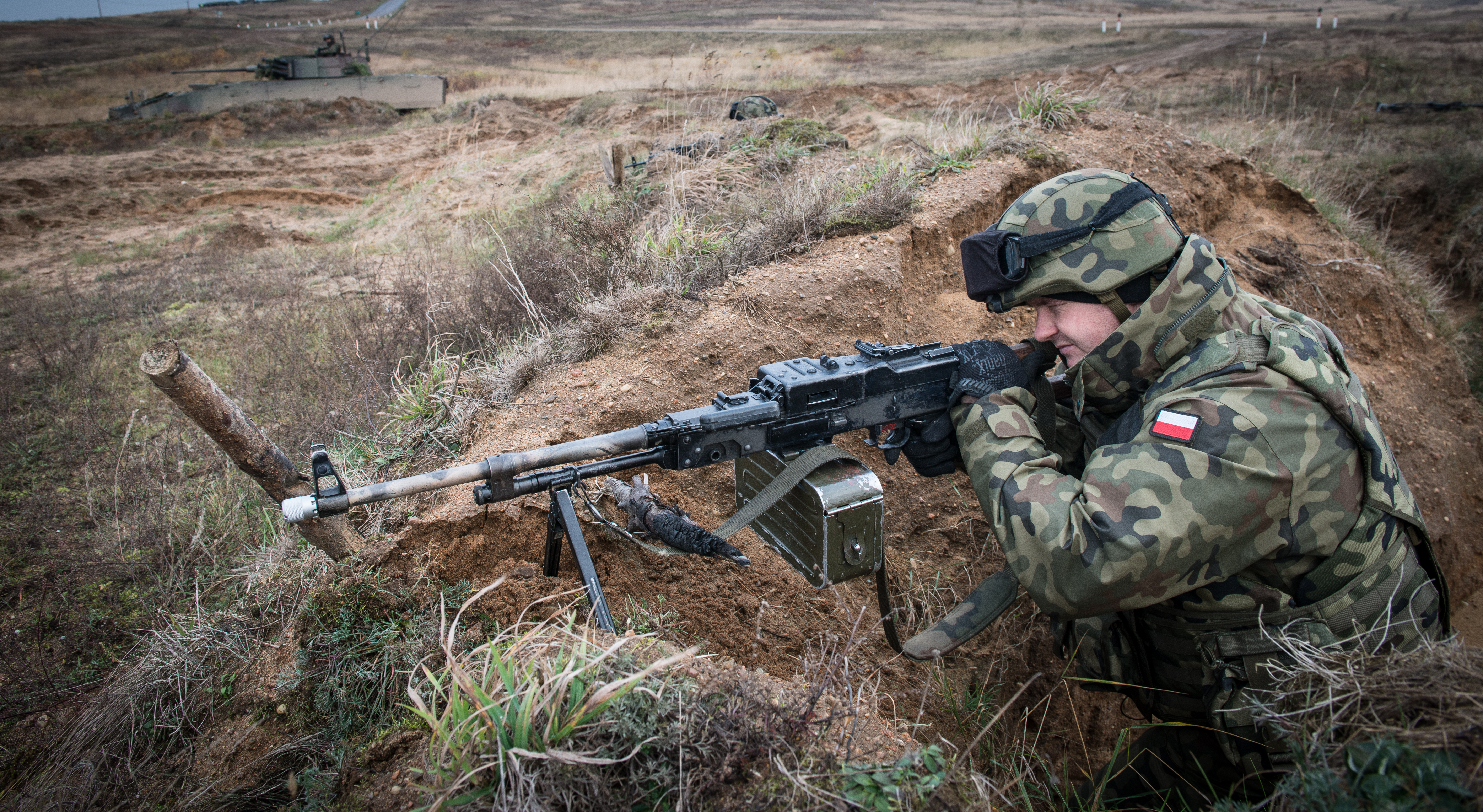 Crew of a Polish Wolvarine Armoured Personnel Carrier practice demounting and taking up defencive positions during a live fire exercise on Exercise Steadfast Jazz at the Drawsko Pomorskie Training Area, Poland, on Nov. 6, 2013. Exercise Steadfast Jazz 2013 is taking place from 1-9 November in a number of Alliance nations including the Baltic States and Poland. The purpose of the exercise is to train and test the NATO Response Force, a highly ready and technologically advanced multinational force made up of land, air, maritime and special forces components that the Alliance can deploy quickly wherever needed. The Steadfast series of exercises are part of NATO’s efforts to maintain connected and interoperable forces at a high-level of readiness. (NATO photo/SSgt Ian Houlding GBR Army)